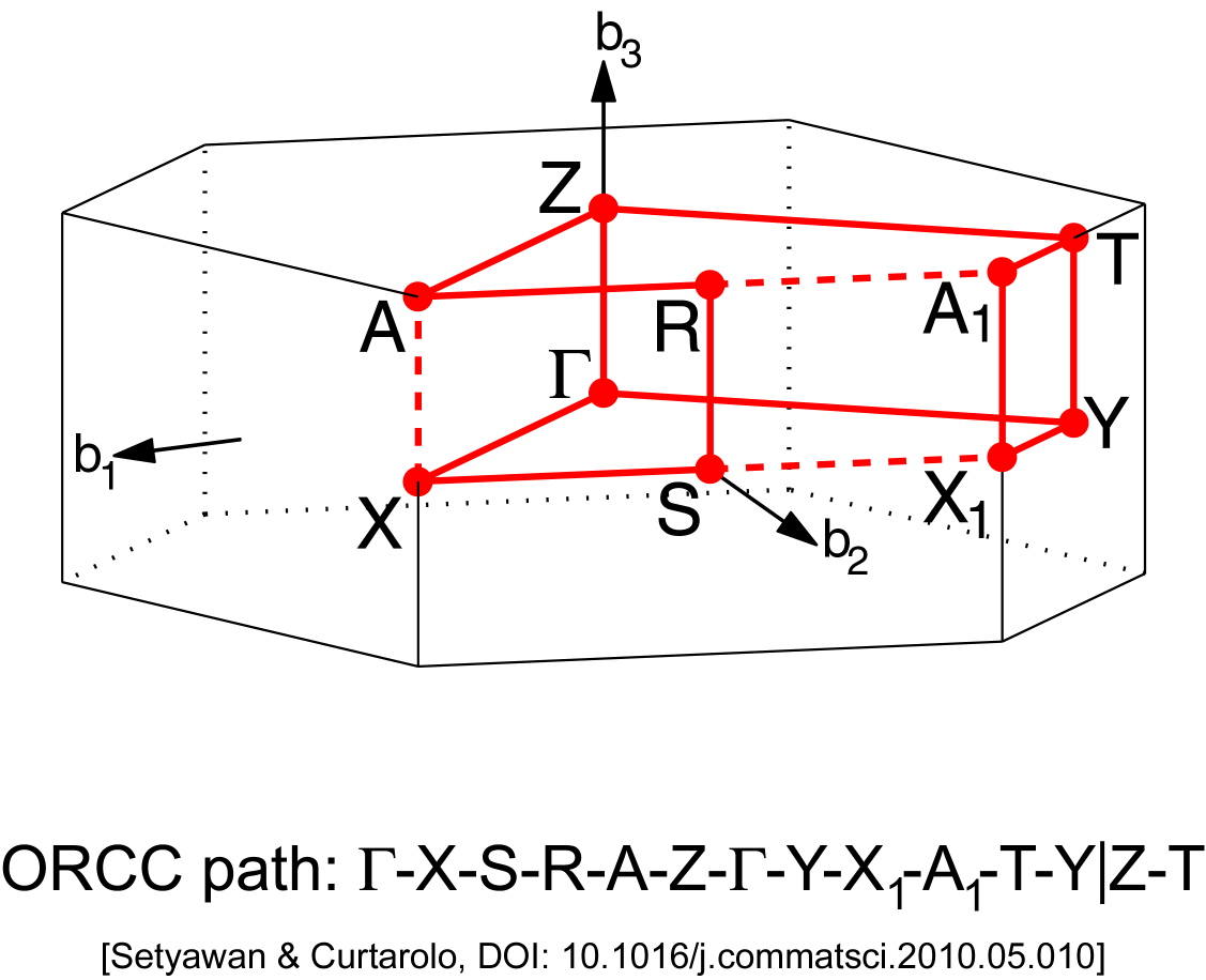 Curtarolo, consortium